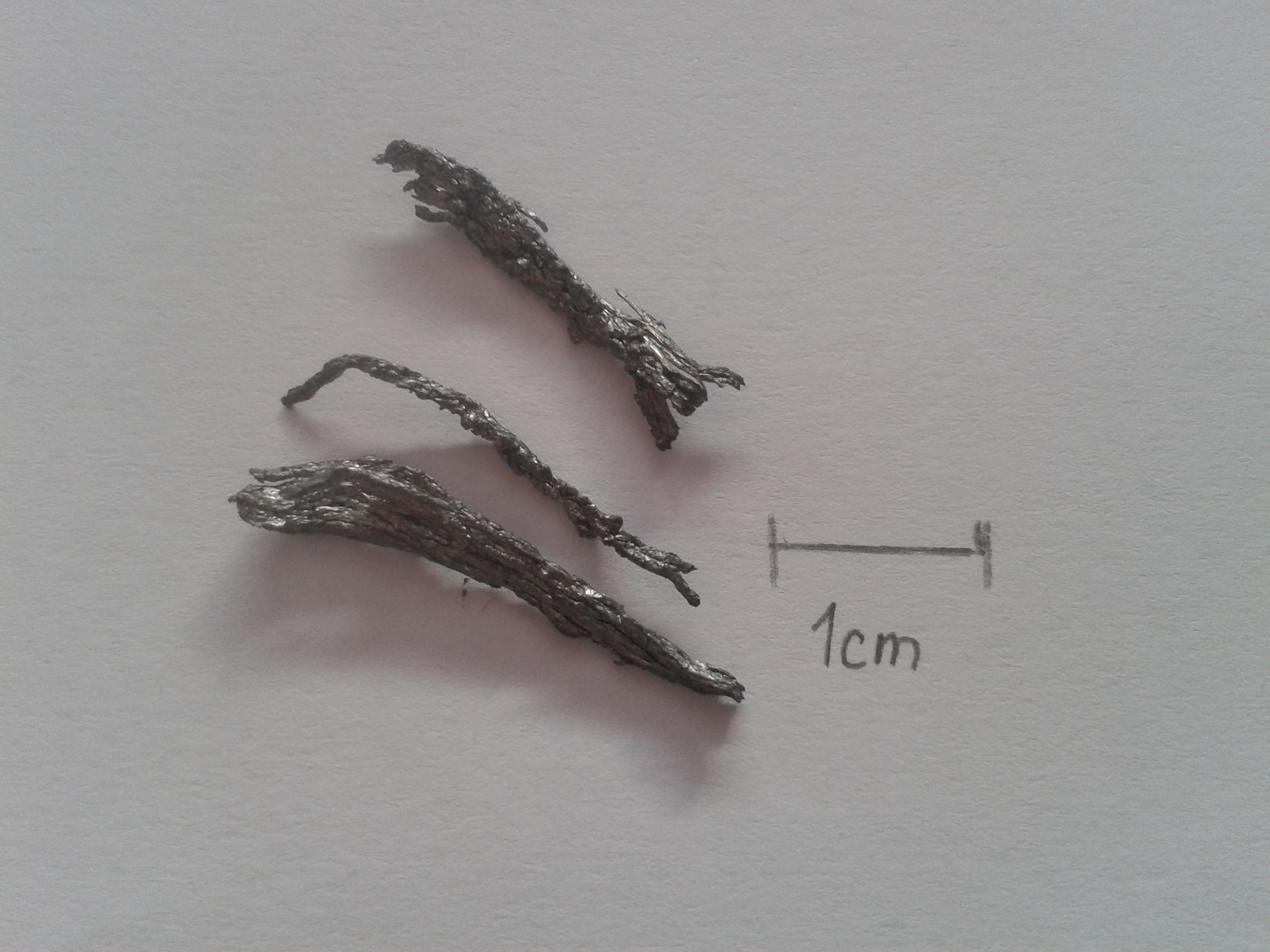 Small 1 gram sample of thulium.